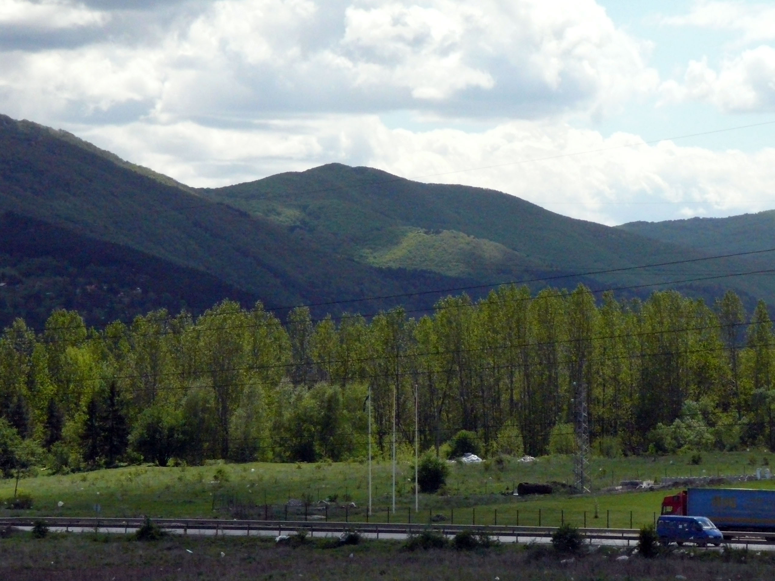 Sofia ringroad, Bulgaria